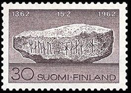 Six centuries state of fundamental rights for Finland's representatives